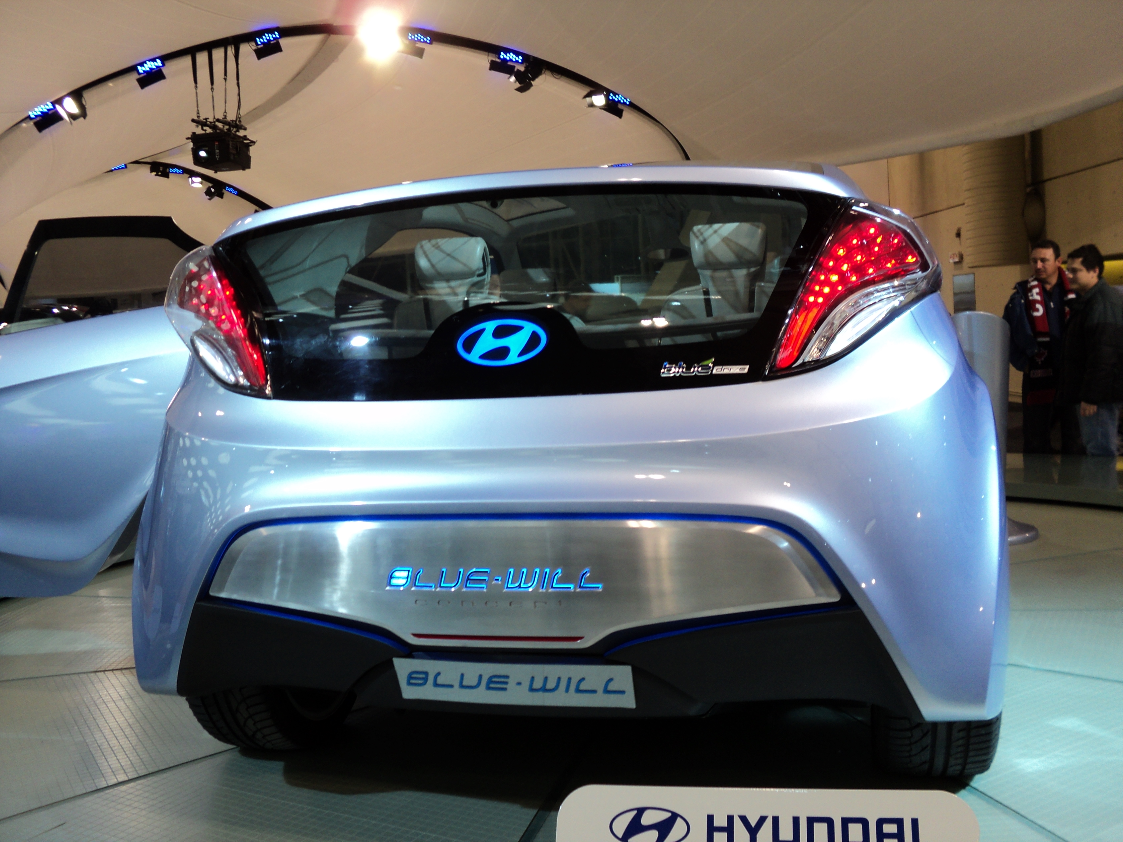 Rear of the Huyndai Blue-Will concept shown at the 2011 Canadian International Autoshow in Toronto.